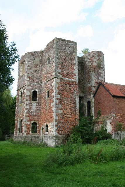 Otford Palace Gatehouse. Archbishop's Palace ruins